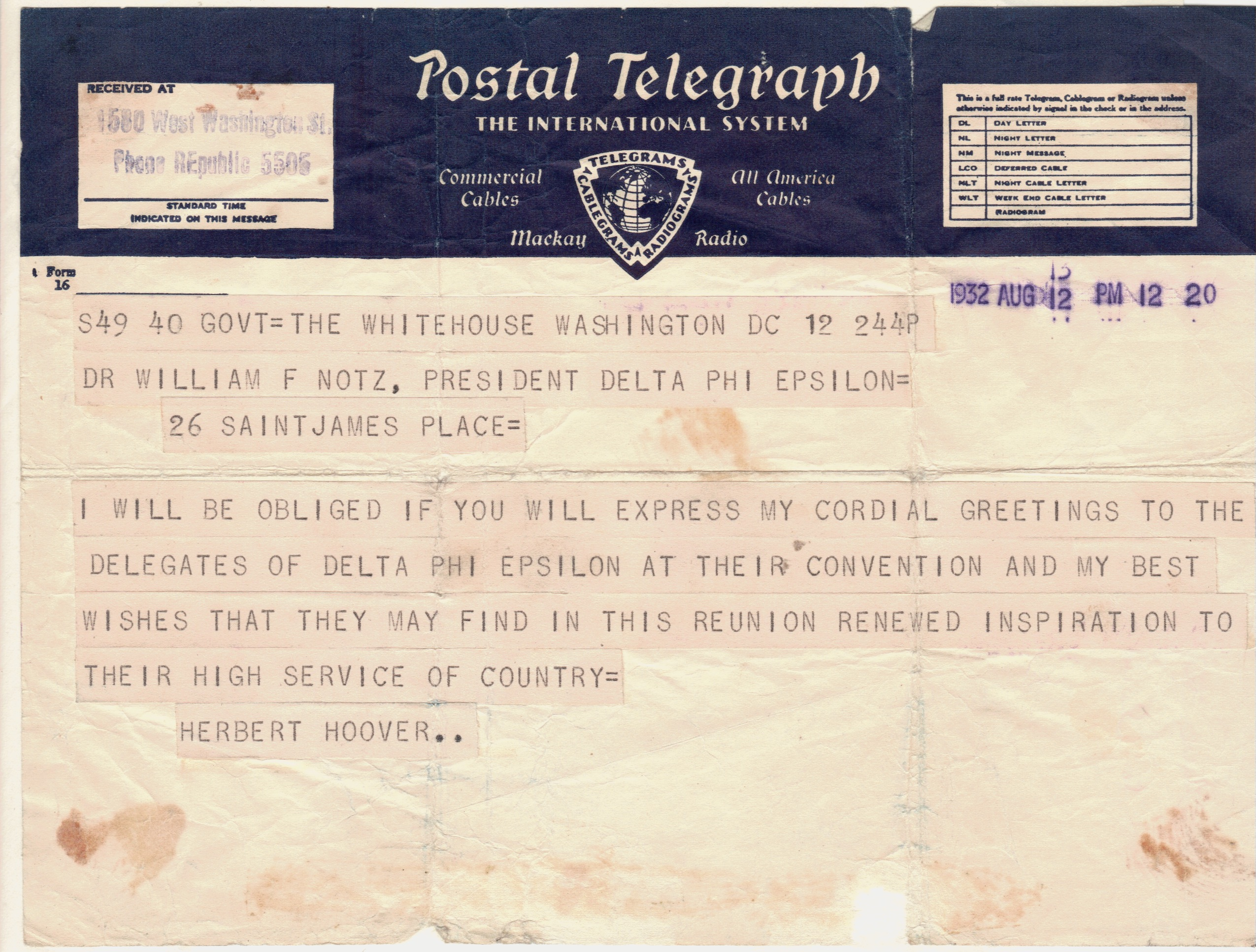 Telegram from Pres Hoover and awarding him an Honor Key